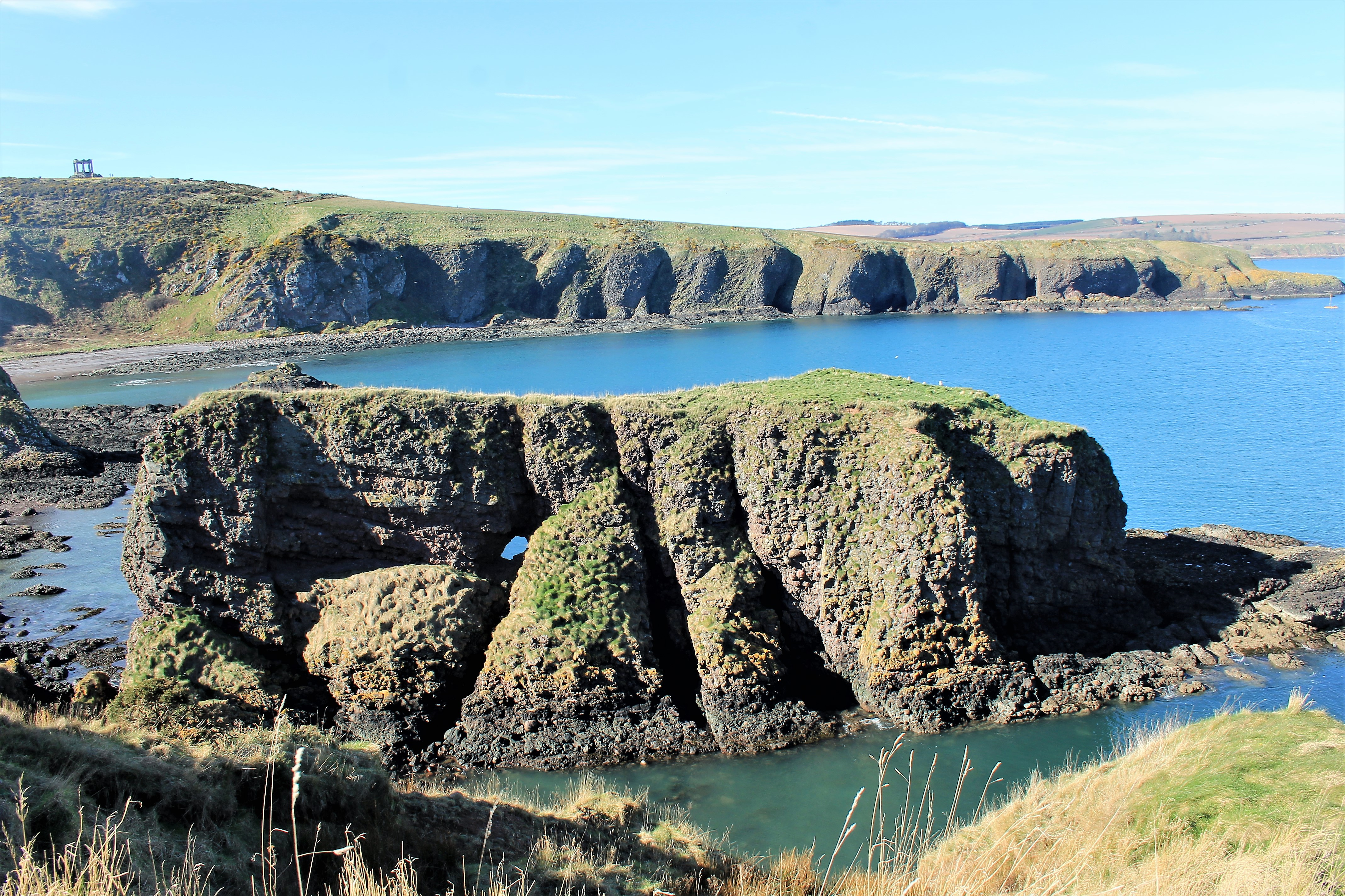 Dunnicaer